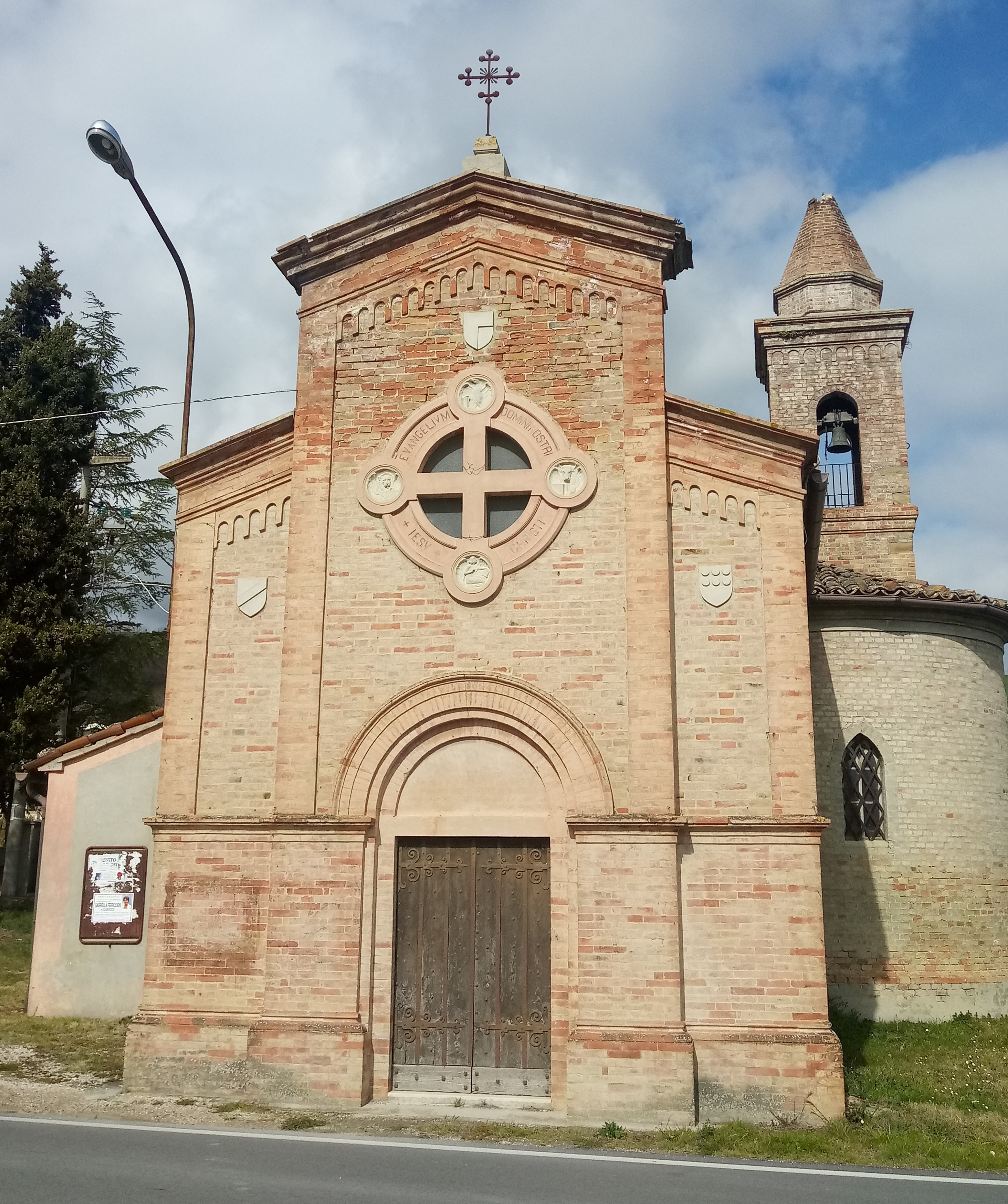 Church of Campanelle